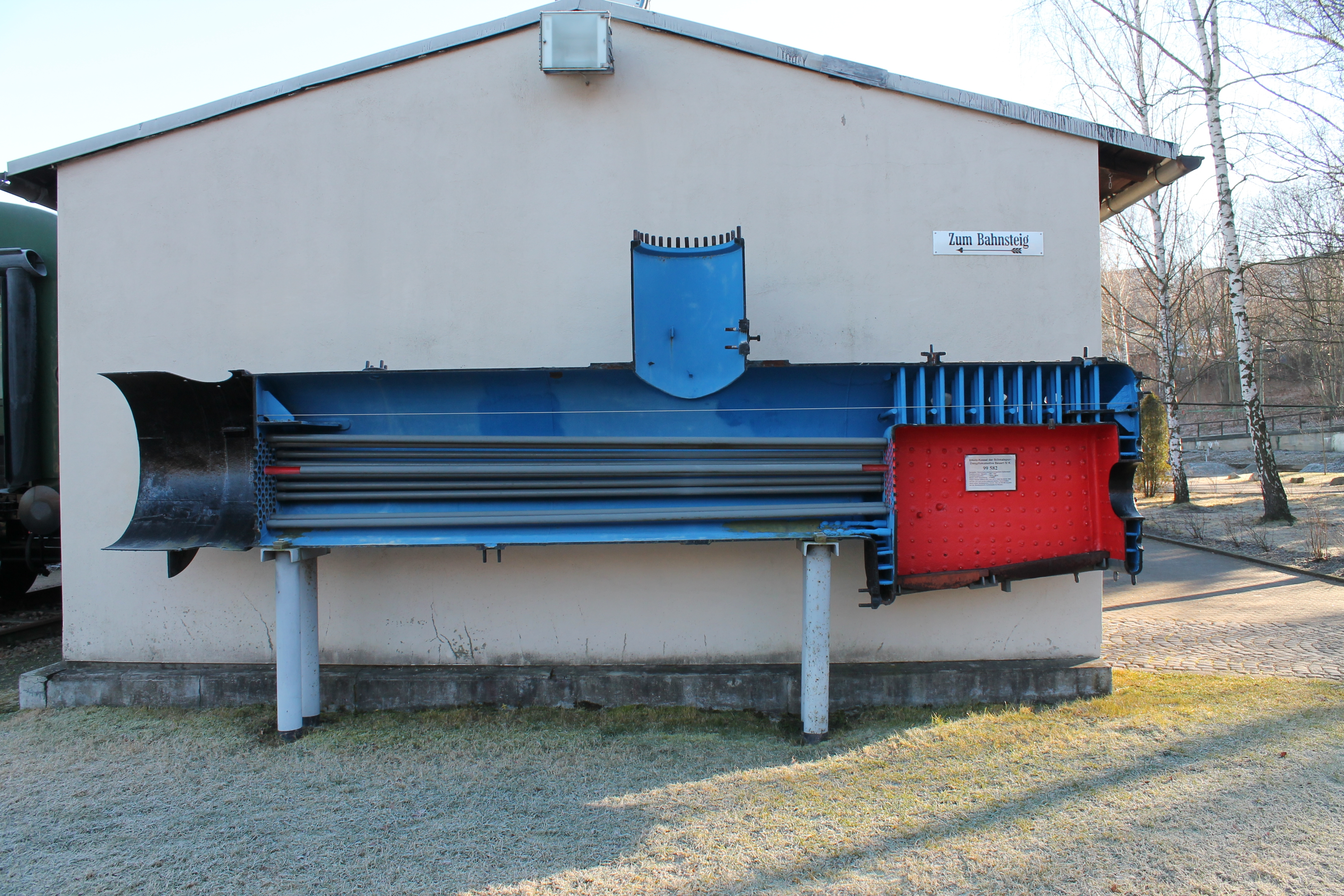 Boiler cross section of IVK 99 582 at railway museum Schwarzenberg. Schwarzenberg, Saxony, Germany